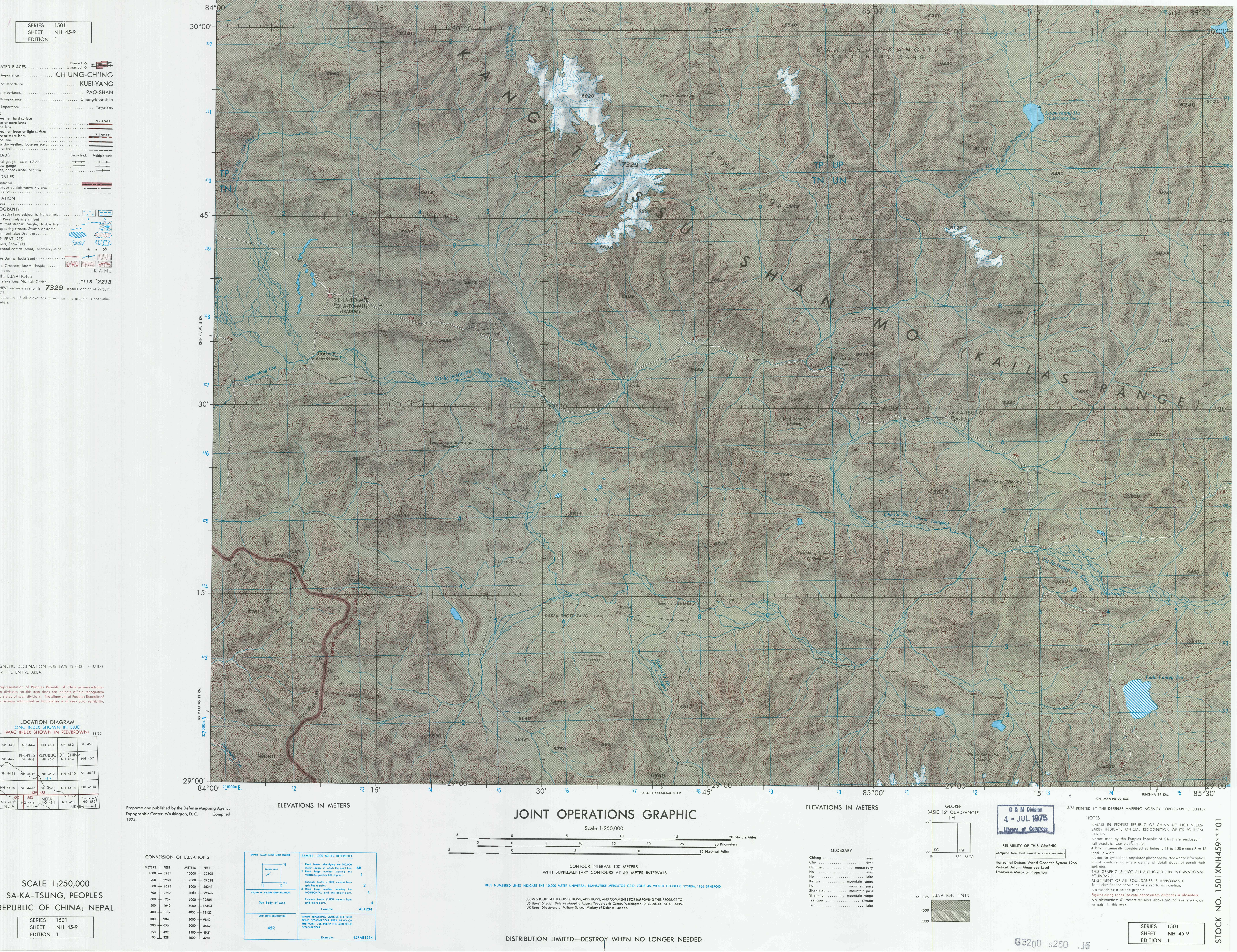 NH-45-9 Sakatsung China